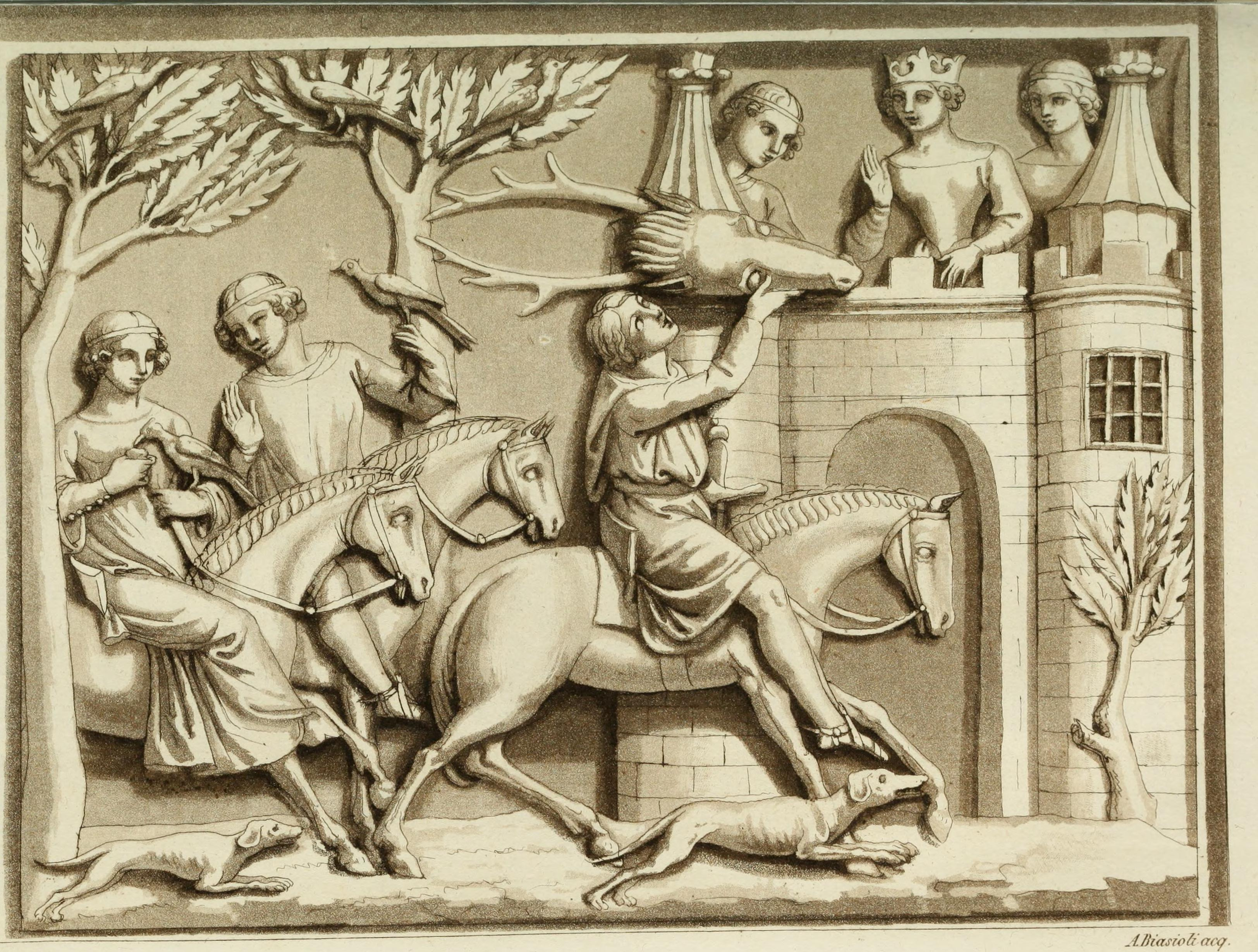 Title: Storia ed analisi degli antichi romanzi di cavalleria e dei poemi romanzeschi d'Italia : con dissertazioni sull'origine, sugl'istituti, sulle cerimonie de' cavalieri, sulle corti d'amore, sui tornei, sulle giostre ed armature de' paladini, sull'invenzione e sull'uso degli stemmi ecc.; con figure tratte dai monumenti d'arte Year: 1828 (1820s) Authors: Ferrario, Giulio, 1767-1847 Melzi, Gaetano, conte, 1783-1851. Bibliografia dei romanzi e poemi romanzeschi d'Italia Cop.2: Cavagna Sangiuliani di Gualdana, Antonio, conte, 1843-1913, former owner. IU-R Subjects: Romances, Italian Romances, Italian Epic poetry, Italian Epic poetry, French Knights and knighthood Publisher: Milano : Tip. dell'autore Text Appearing Before Image: ' Text Appearing After Image: i Tornei, le Giostre , i Cavalieri ec. io3vedesi una Principessa fra due selvaggi copertidi una pelle dorso, coi capelli in forma dicriniera e col viso spaventevole : nel quadro se-guente il Cavaliere toglie la Principessa dalle ma-ni del rapitore : più lungi ella sembra raccontaread alcune persone le sue disgrazie e la sua li-berazione : le mura terminano con unaltra torresulla quale trovasi una Regina con un Falco-niere. Passiamo ad osservare ciò che avvieneai piedi delle stesse mura. Vi si vede un com-battimento tra un incantatore ed il Cavaliereche con un colpo di lancia passa il petto alsuo rivale, e vincitore trasporta seco sul suocavallo la ricuperata Principessa , difendendoladagli attentati di varj di quemostri che allafine carichi di catene sono dati nelle manidella sua Dama, che sta per rinchiuderli nellaprigione della quale ella tiene la chiave. Quiterminano le avventure del prode Cavaliere,e nella supposizione che le nozze colla Princi-pessa sia la ricompensa de perigli